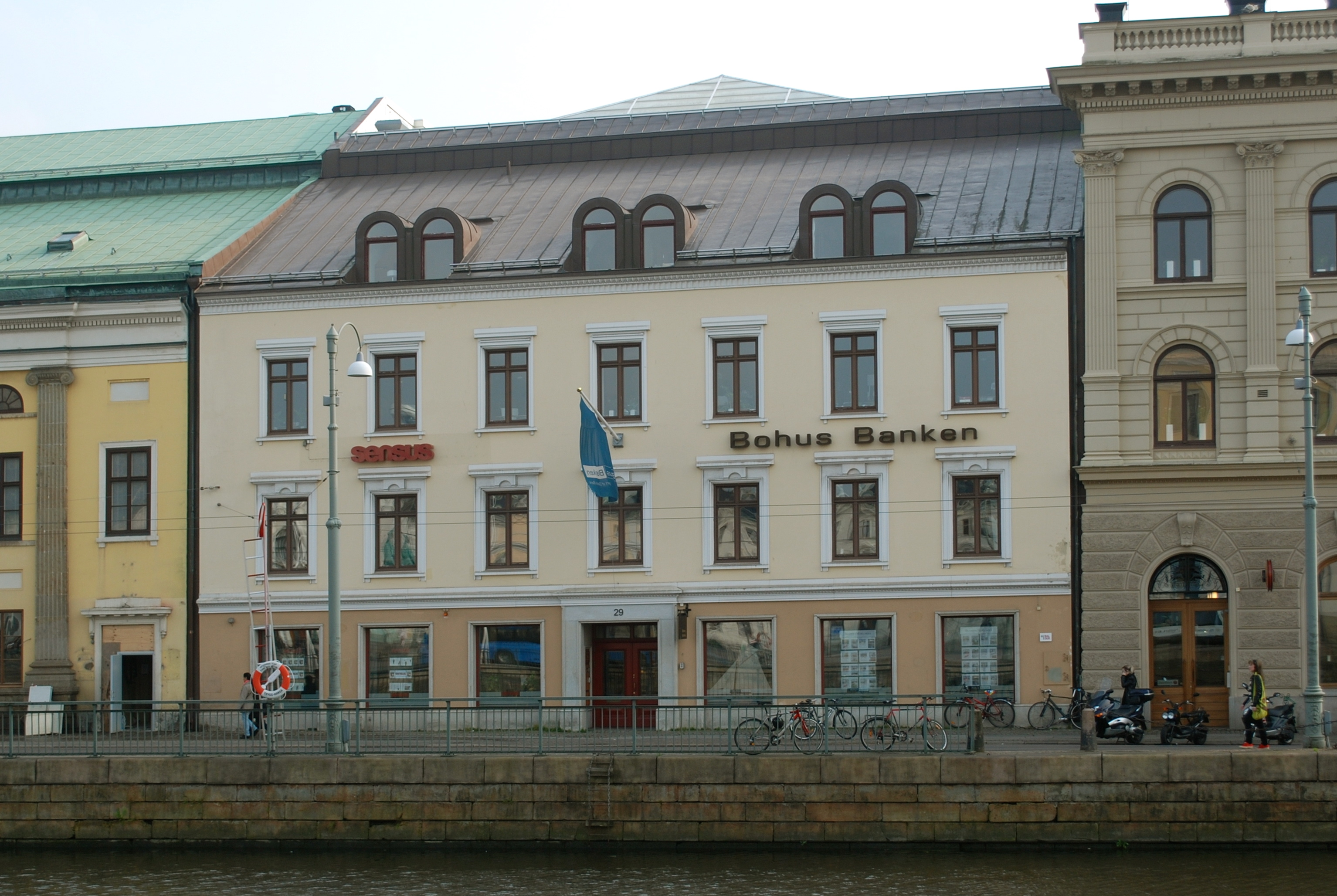 Södra Hamngatan 29.